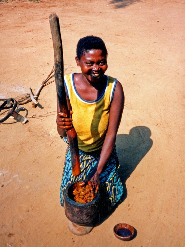 Palm nuts are boiled and then pounded in a wooden mortar. After the nuts are removed, the oily fibers are squeezed into a bowl to extract the dark orange oil. In Kikongo: "mafuta ya ngasi" mafuta = oil ya = of ngasi = palm kibuka = mortar kituta = pestle kututa = verb to pound